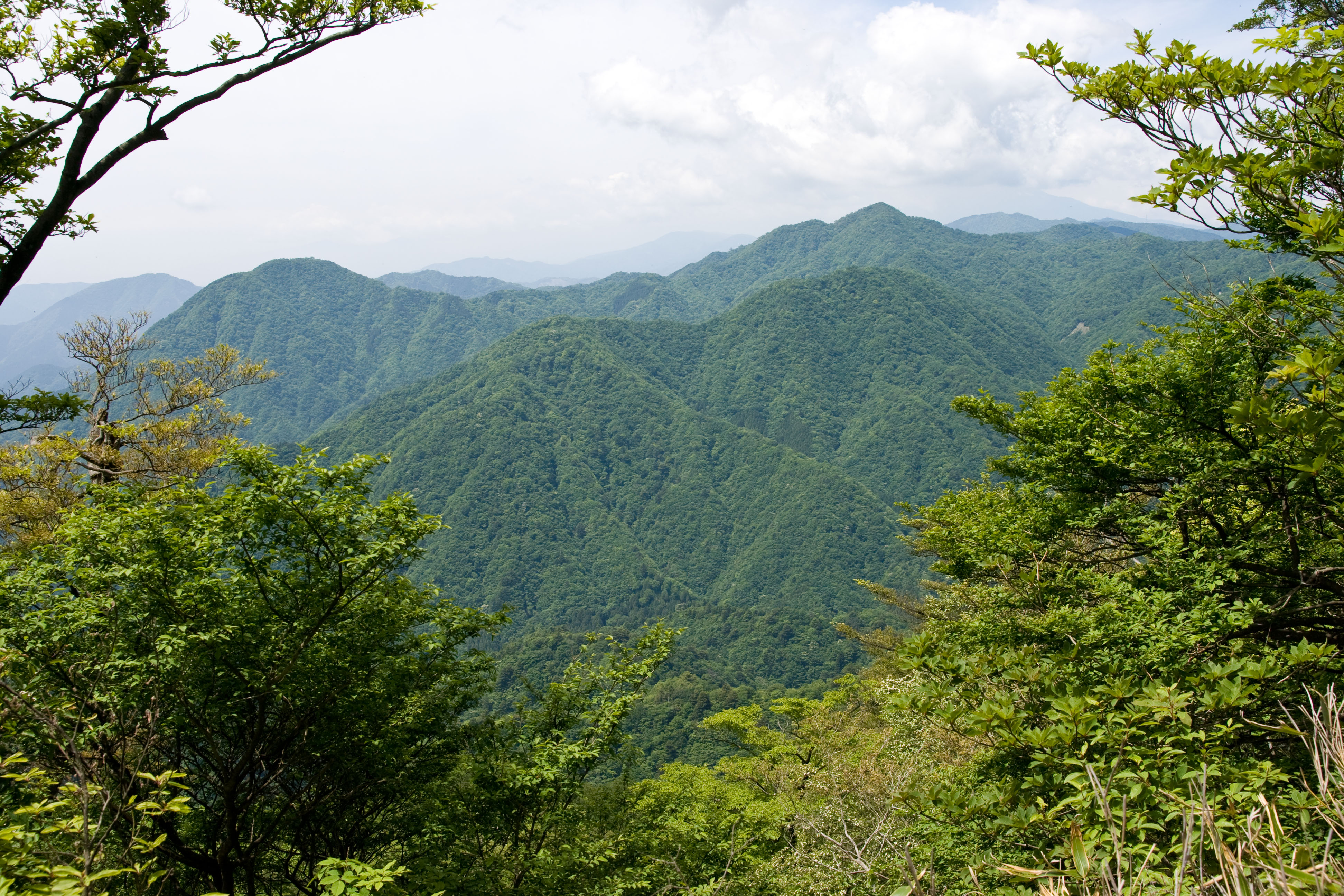 Mt.Azegamaru view from Tanzawa-shuryo, Yamakita Town, Kanagawa Pref., Japan.